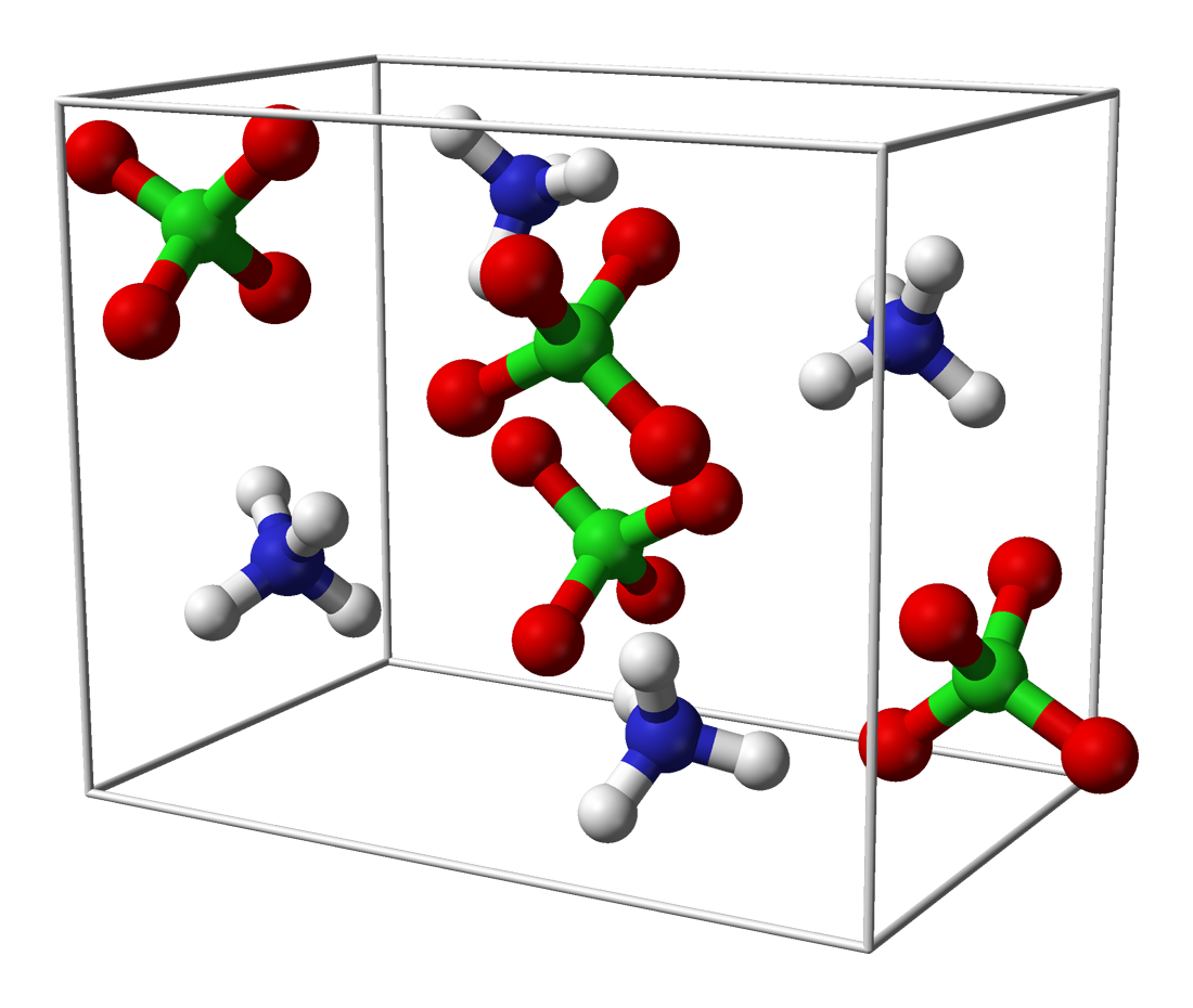 Ball-and-stick model of the unit cell of ammonium perchlorate, [NH4][ClO4]. X-ray crystallographic data from G. Peyronel and A. Pignedoli (August 1975). "A three-dimensional X-ray redetermination of the crystal structure of ammonium perchlorate". Acta Cryst. B31 (8): 2052-2056. Image generated in Accelrys DS Visualizer.